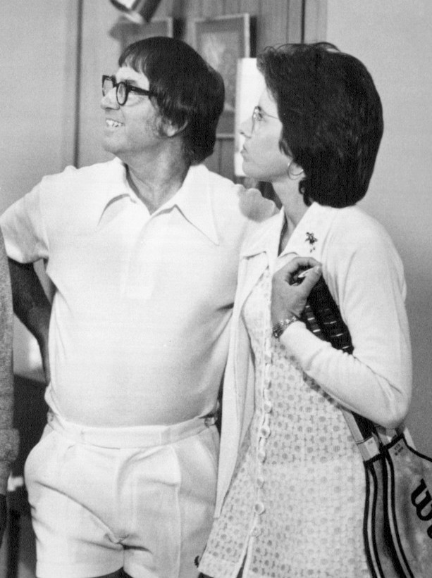 Photo of Jack Klugman, Bobby Riggs and Billie Jean King in an episode of the television series The Odd Couple. The item has no copyright markings on it as can be seen in the links above.